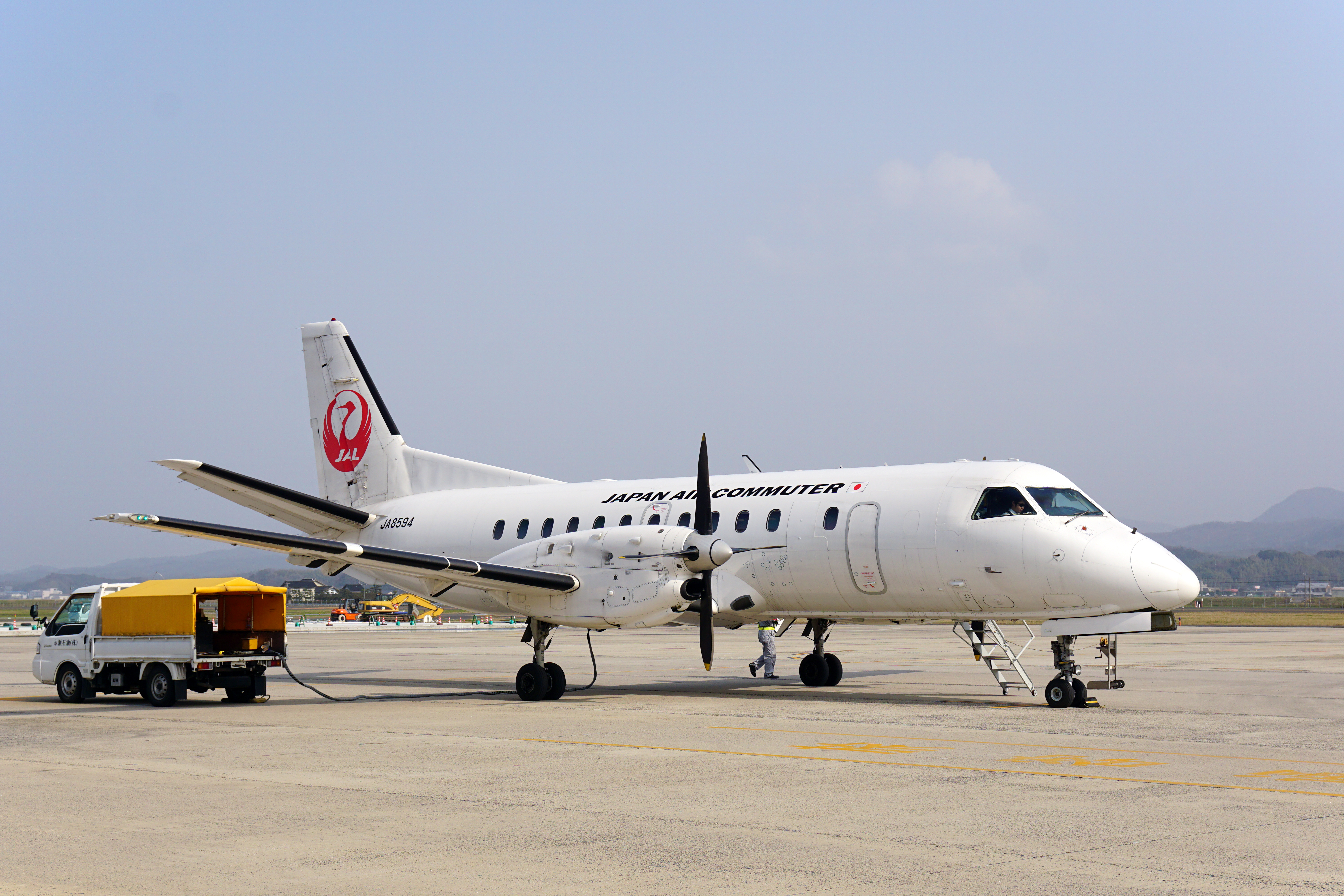 Izumo Airport, Izumo, Shimane prefecture, Japan